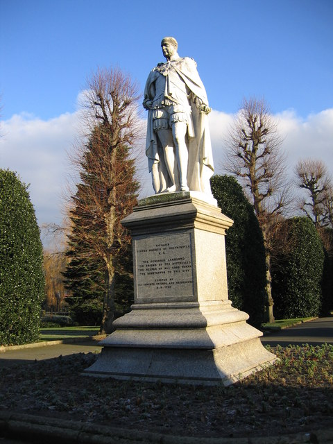 Statue in Grosvenor Park, Chester Statue to Richard the Second Marquis of Westminster.